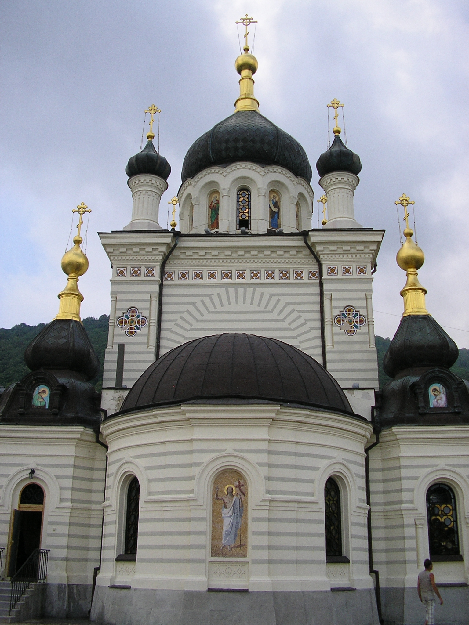 Church of Resurrection of Christ in Foros, Crimea